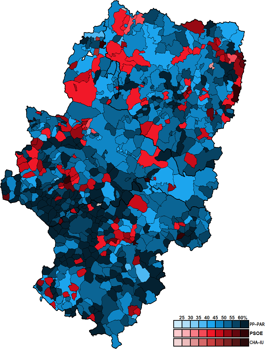 Most-voted party in Aragon municipalities, showing vote share obtained, in the Spanish general election, 2011.